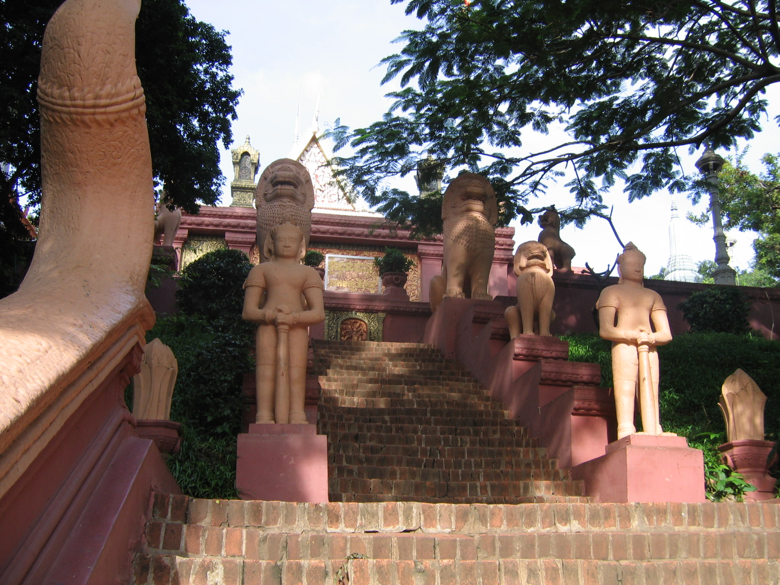 Stairway